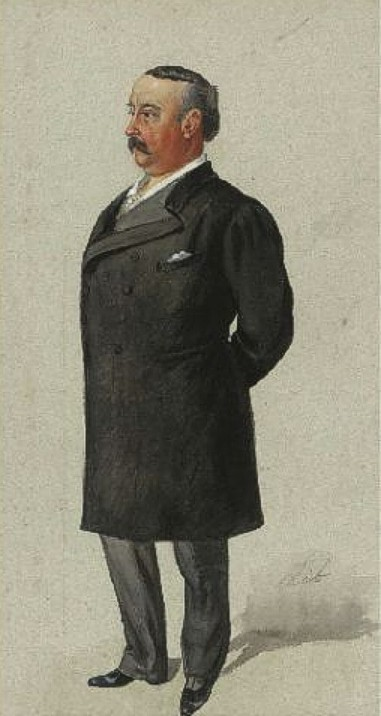 Mr Edward Lloyd, The English Tenor, pencil and watercolor heightened with white, 12 x 6.5 in. / 30.5 x 16.5 cm.